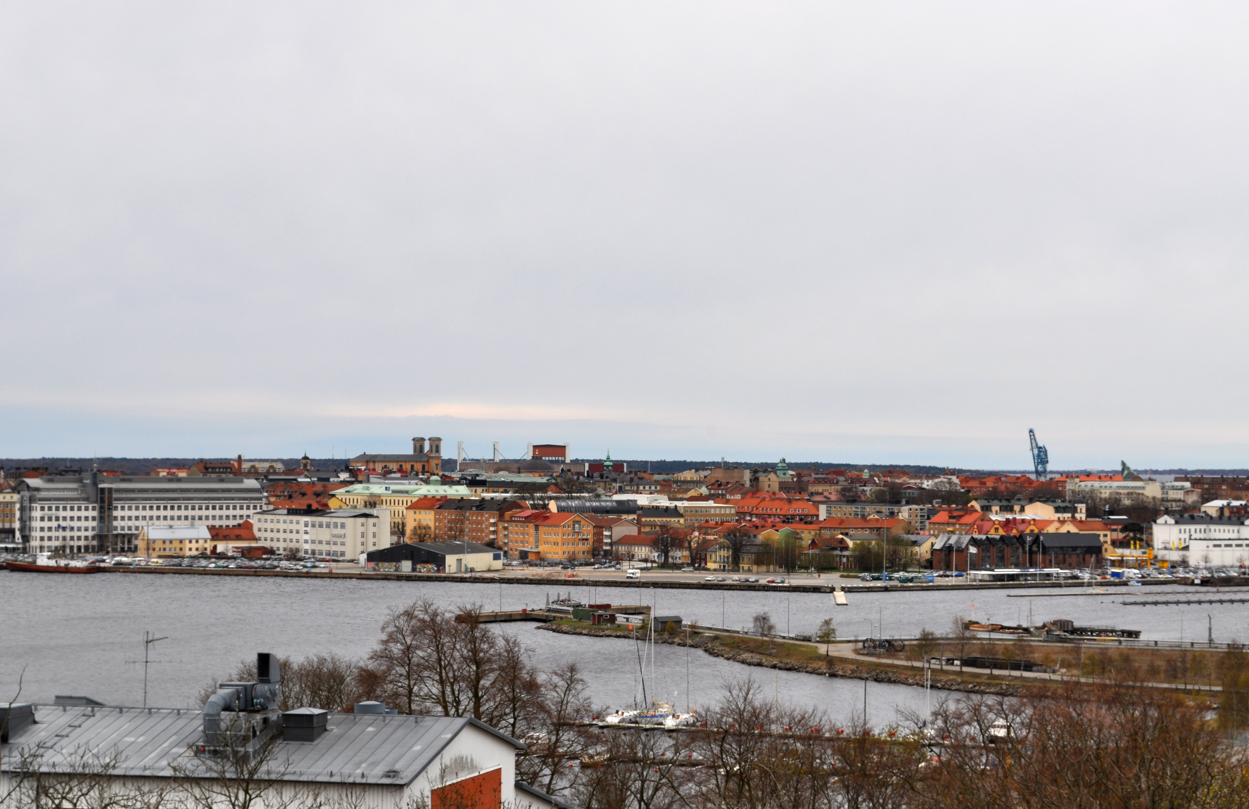 Karlskrona - Trossö